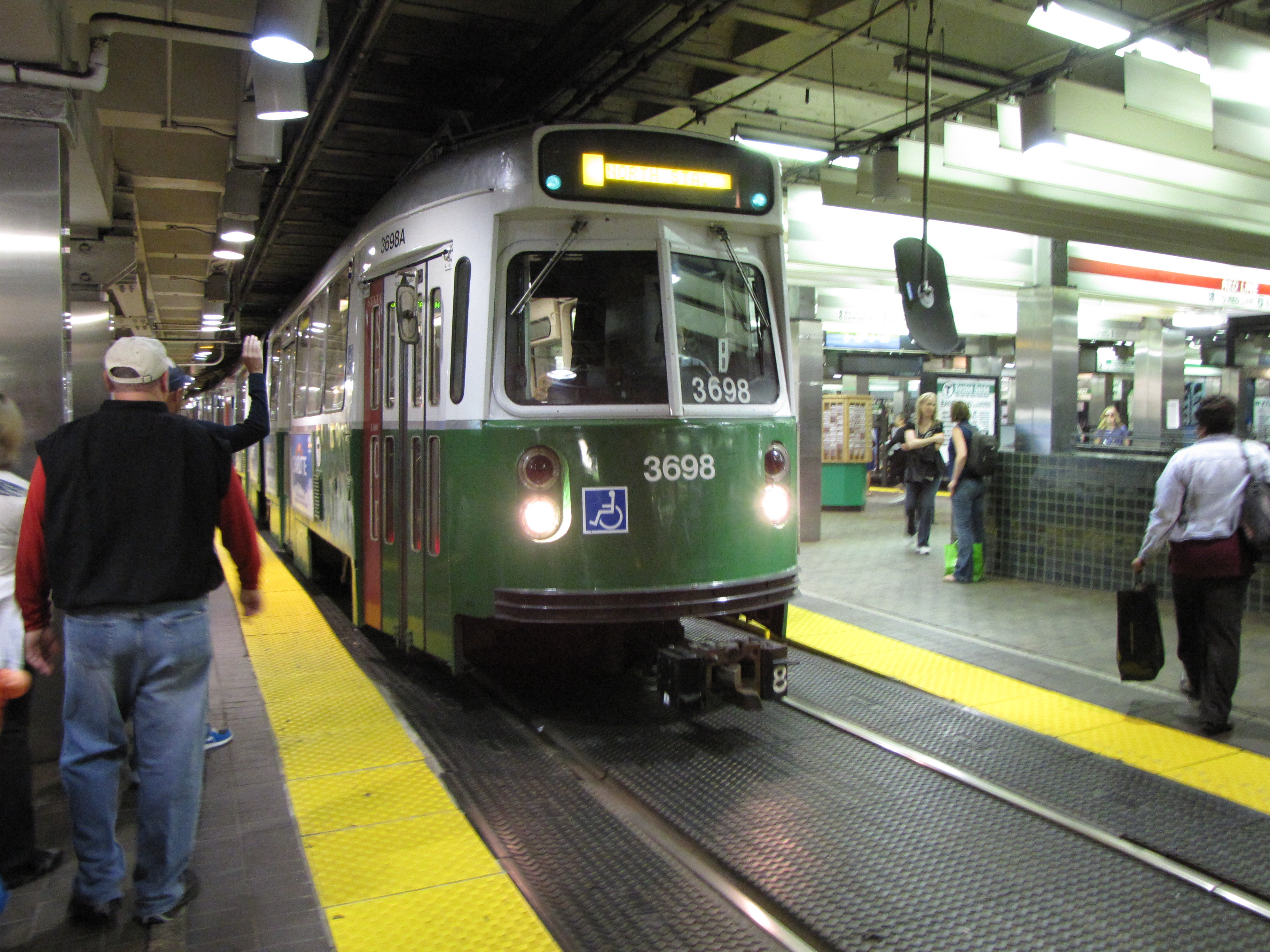 MBTA Green Line Type 7 LRV, made by Kinki-Sharyo, at Park Street station in Boston, Massachusetts. T